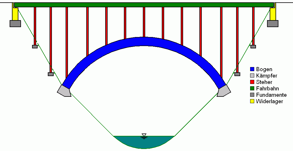 a pattern of an elbow bridge description in german